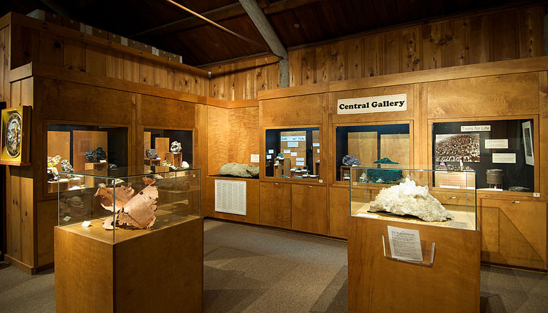 This is the central mineral gallery of the California State Mining and Mineral Museum.